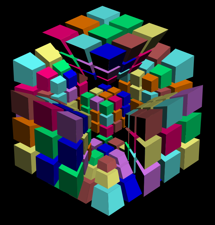 4D virtual 3x3x3x3 sequential move puzzle, scrambled